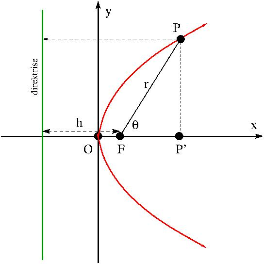 Constructing conic section from focus and directrix.